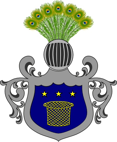 Coat of arms for the Brodtkorb family as interpreted by André R. Brodtkorb